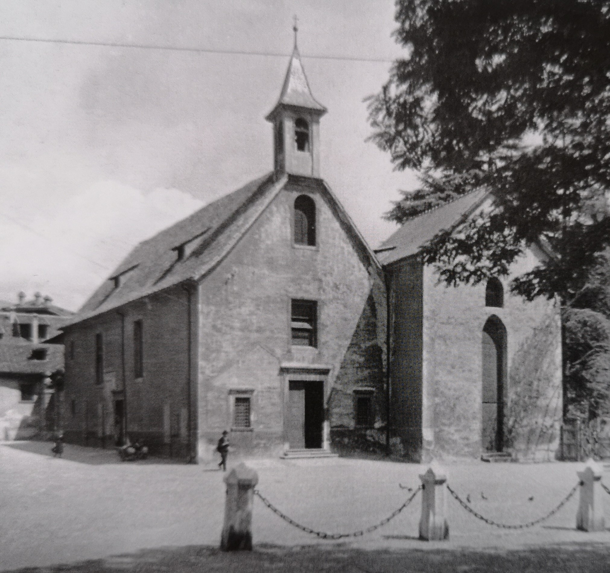 The former St Nicholas church in Bozen-Bolzano in 1940 ca, destroyed in 1943